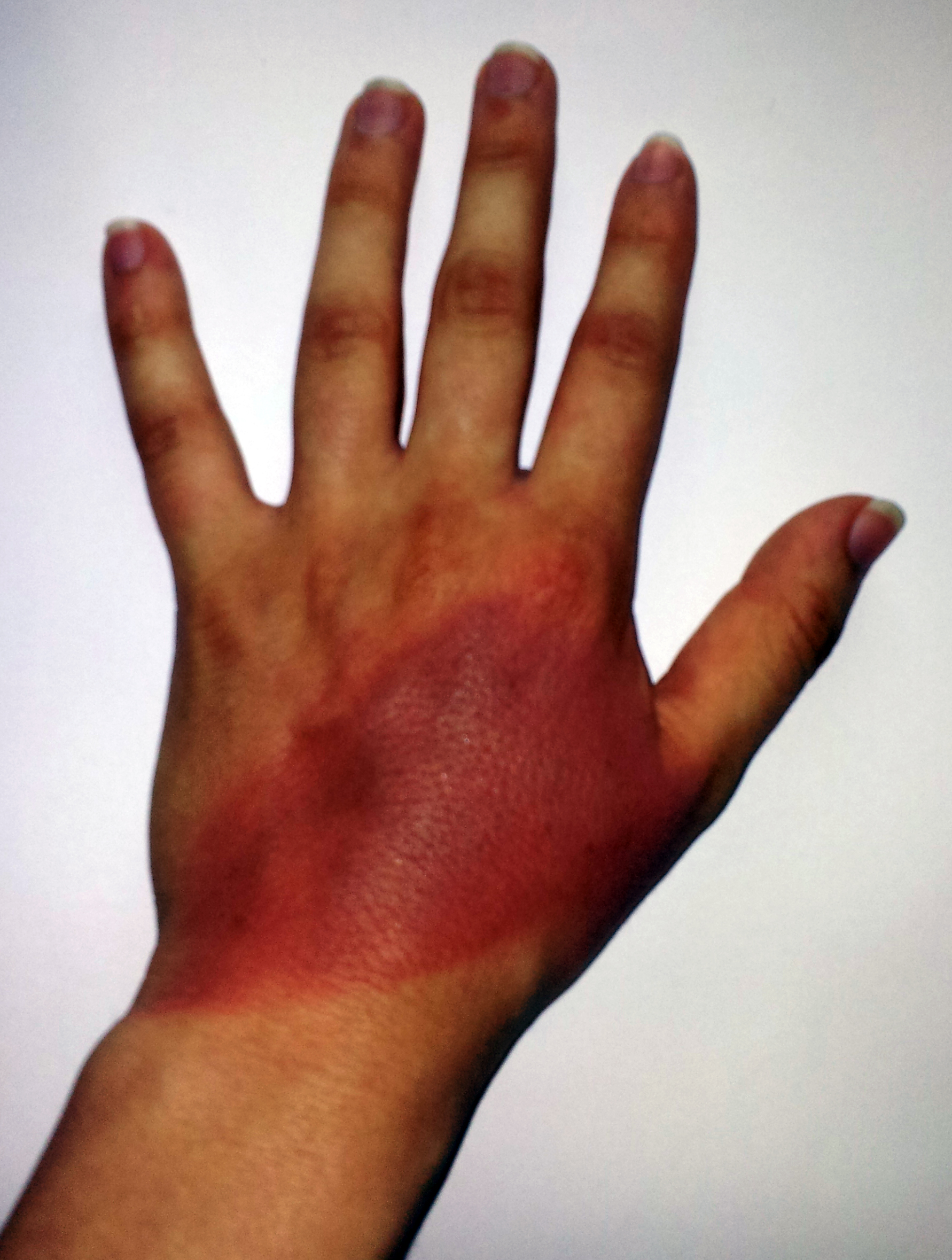 Second degree burn, originated may 21st in the evening